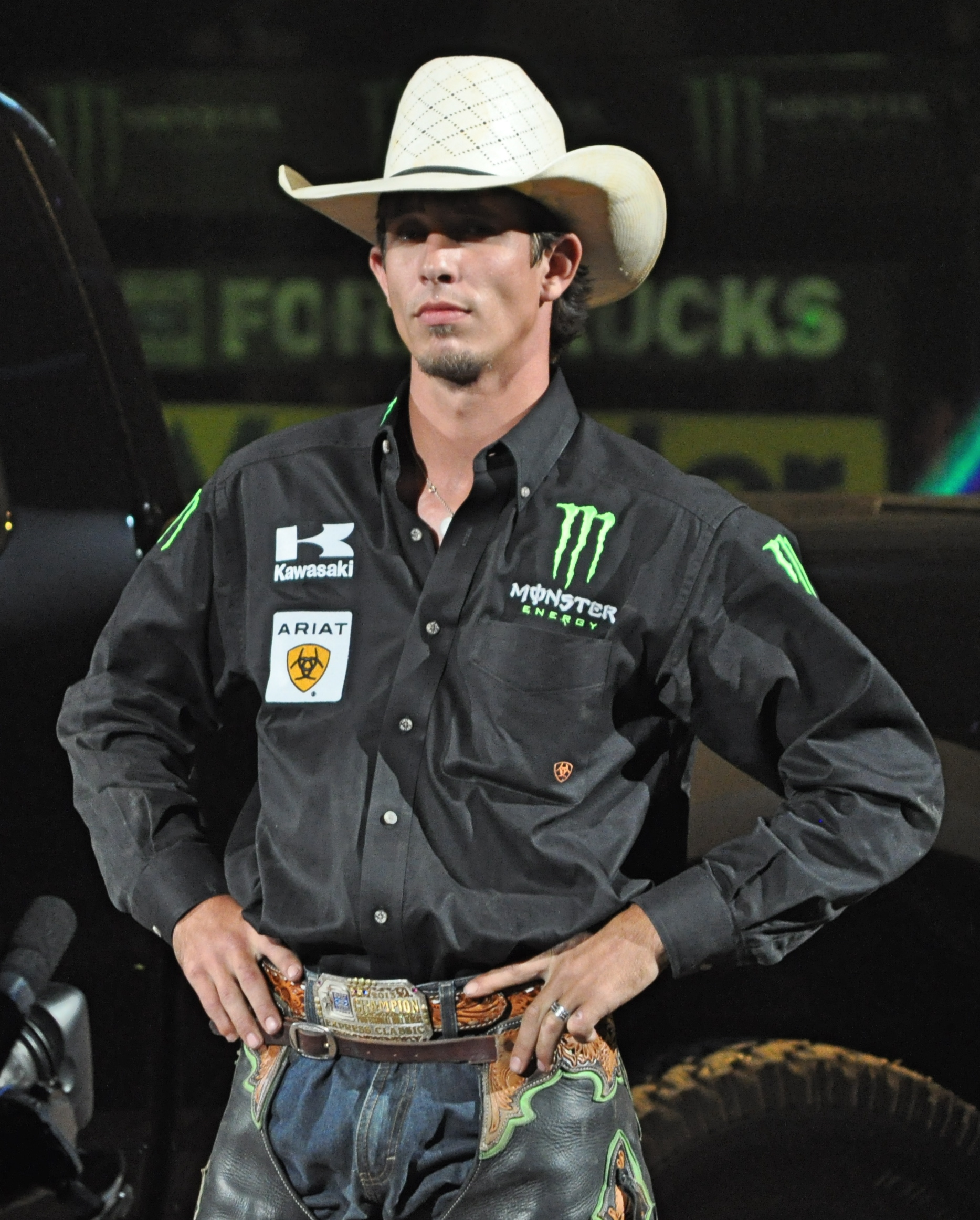 J.B. Mauney